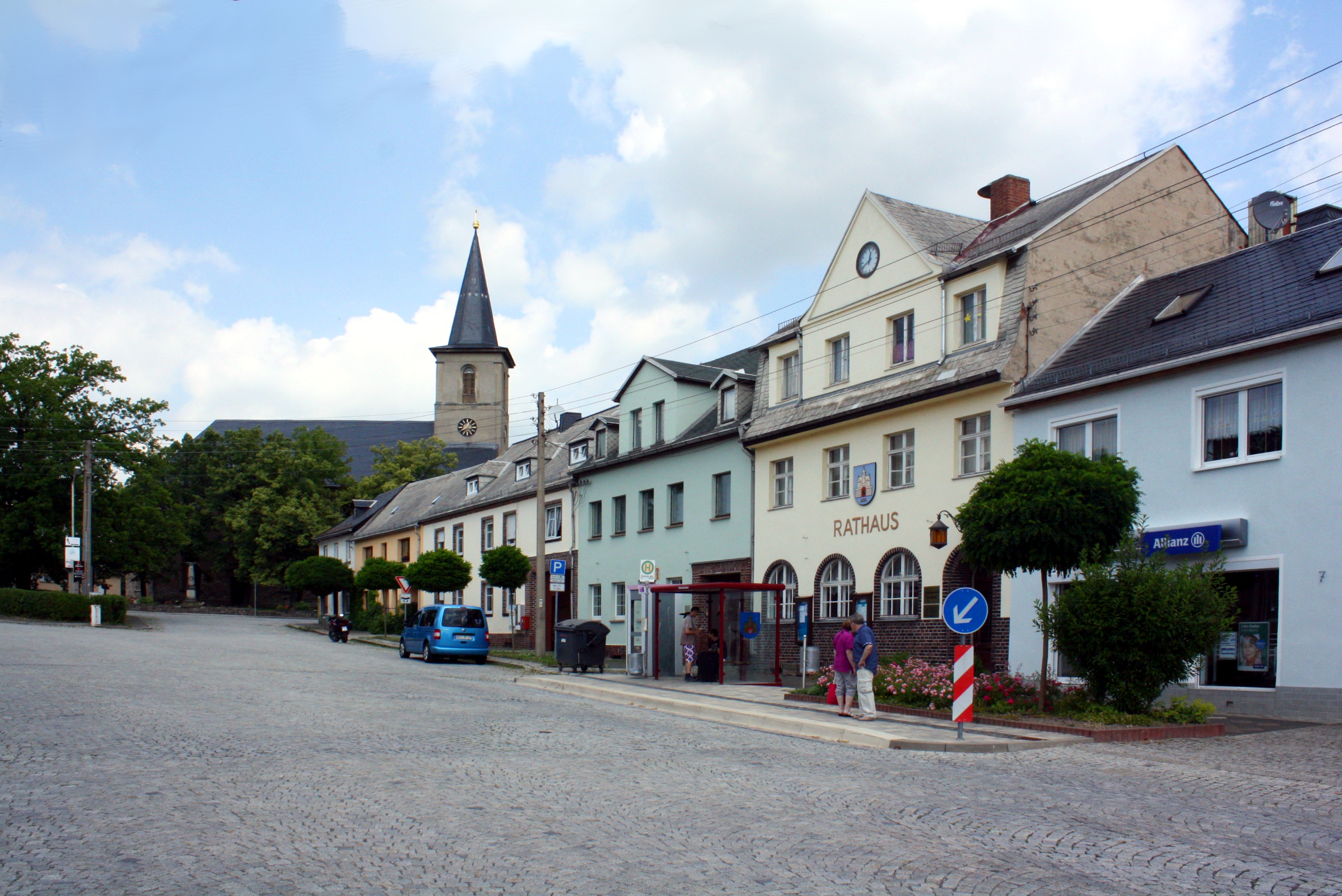 Market place in Hohenleuben near Greiz/Thuringia Deitsch: Markt im ostthüringischen Hohenleuben bei Greiz